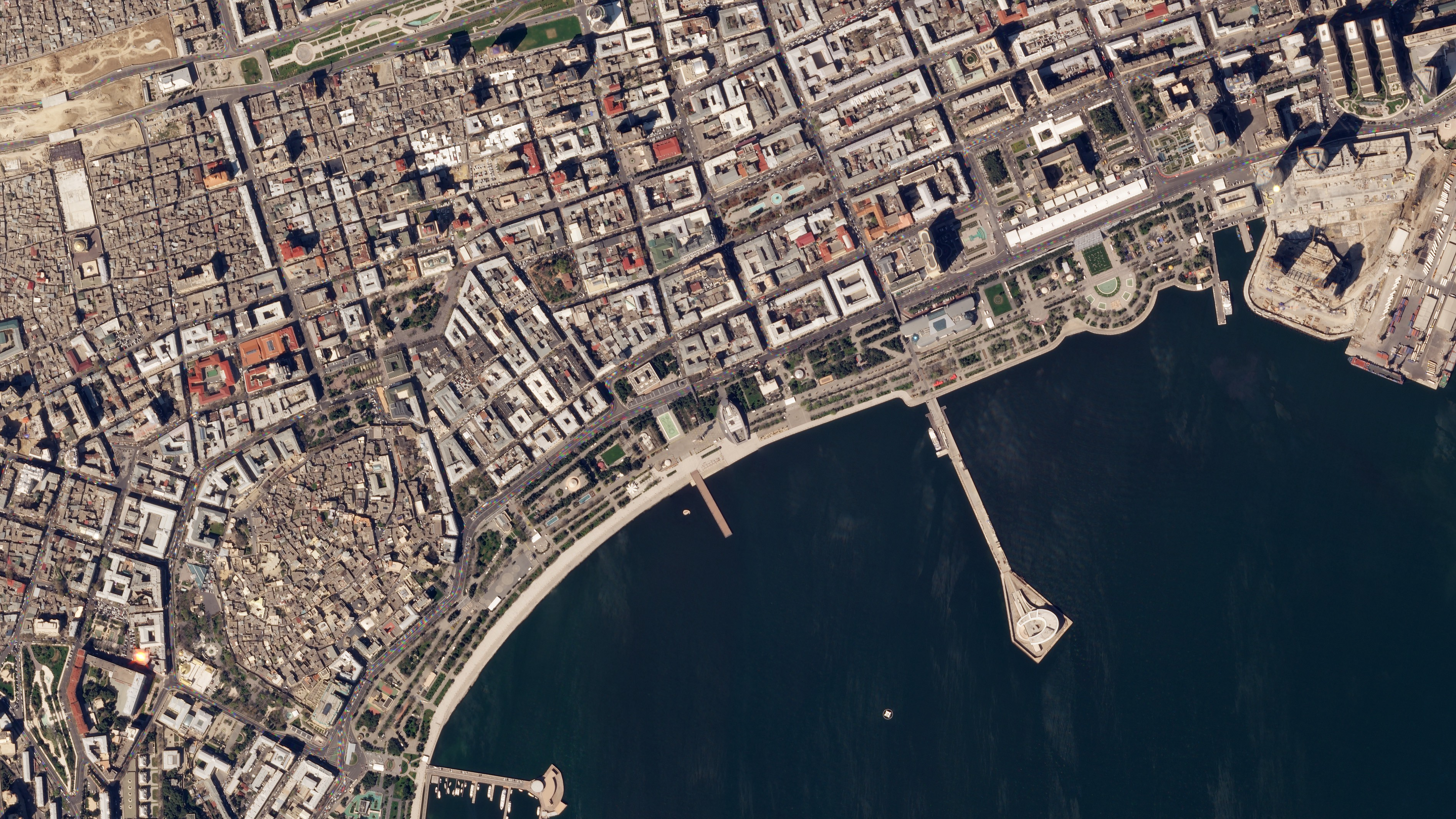 Baku City Circuit, a motor racing street circuit located in Baku, Azerbaijan that is home to the Azerbaijan Grand Prix. Image taken on April 9, 2018, by a Planet Labs SkySat satellite.